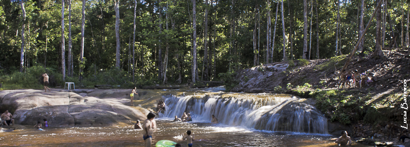 Presidente Figueiredo, Amazonas.